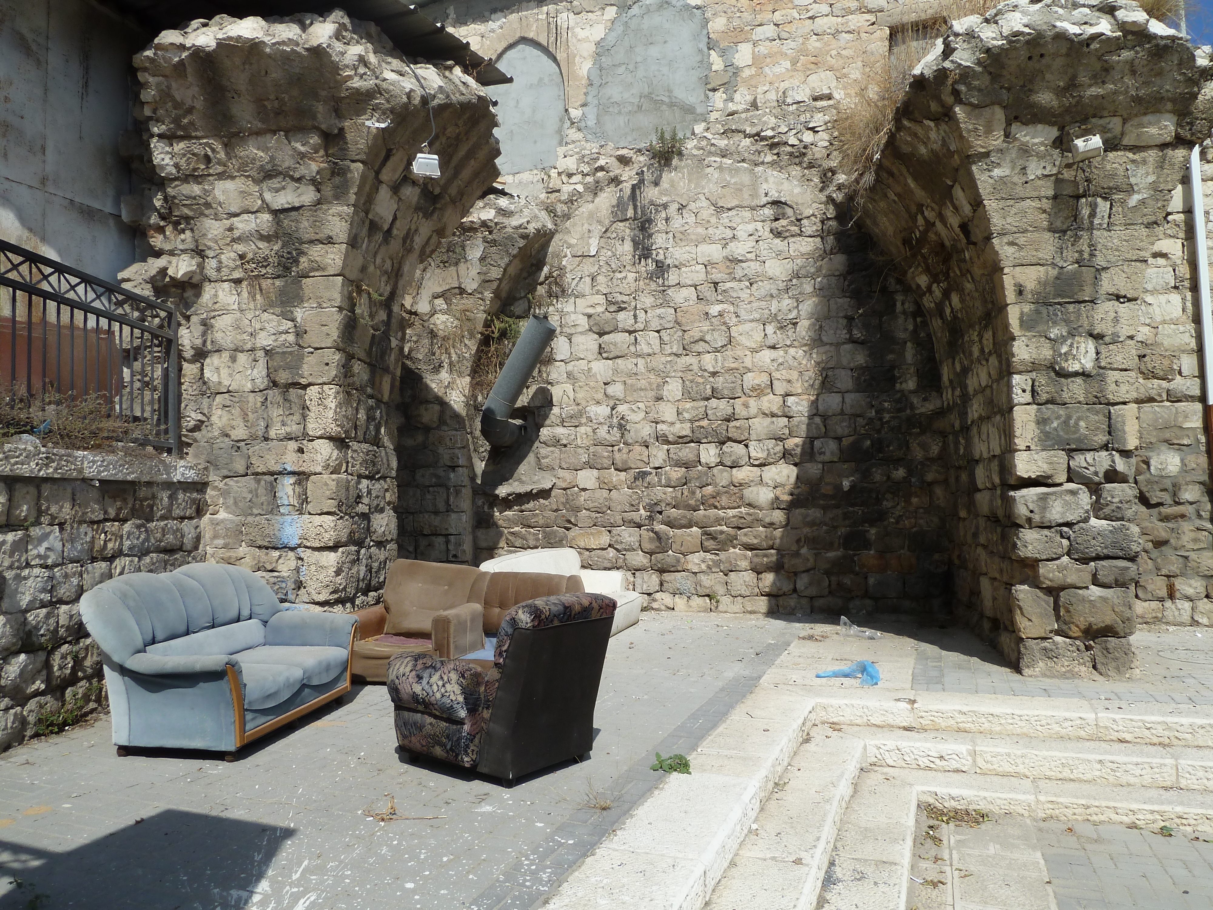 Wadi Salib, Downtown, Haifa